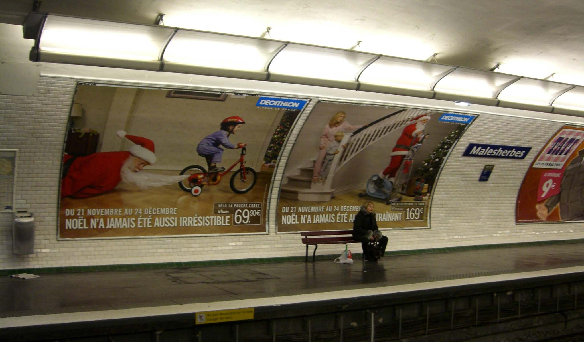 The "Père Noel" (santa Claus) is arriving at Paris by the metro